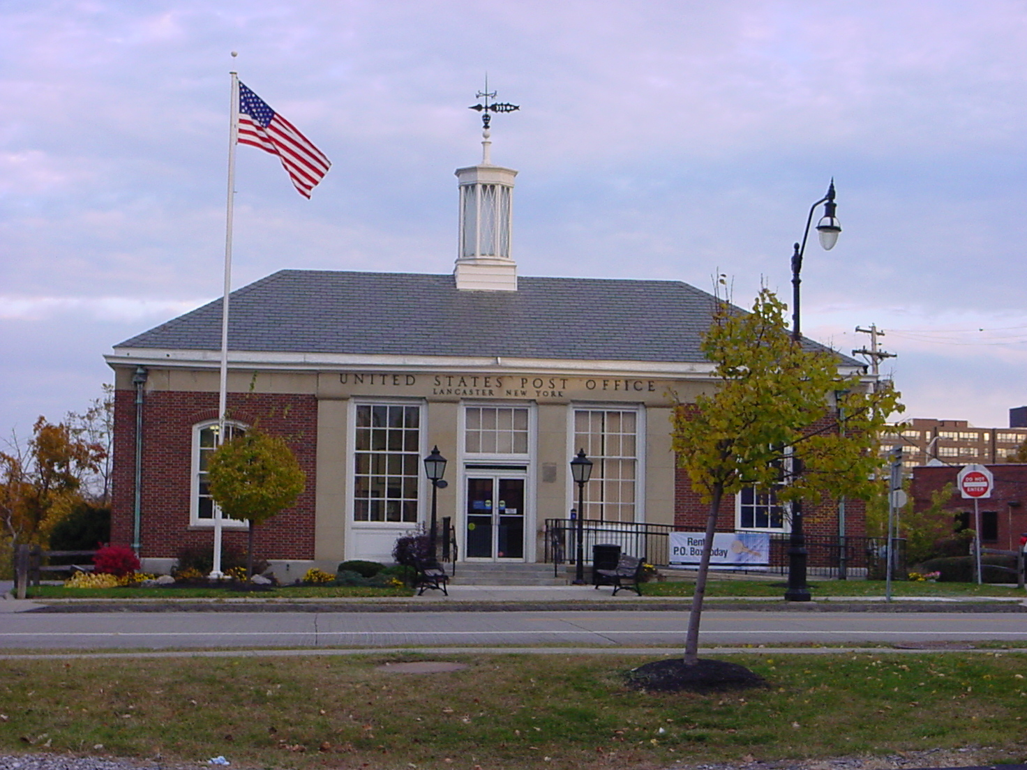 Photo of the United States Post Office building at Lancaster, New York. This building is listed on the National Register of Historic Places.